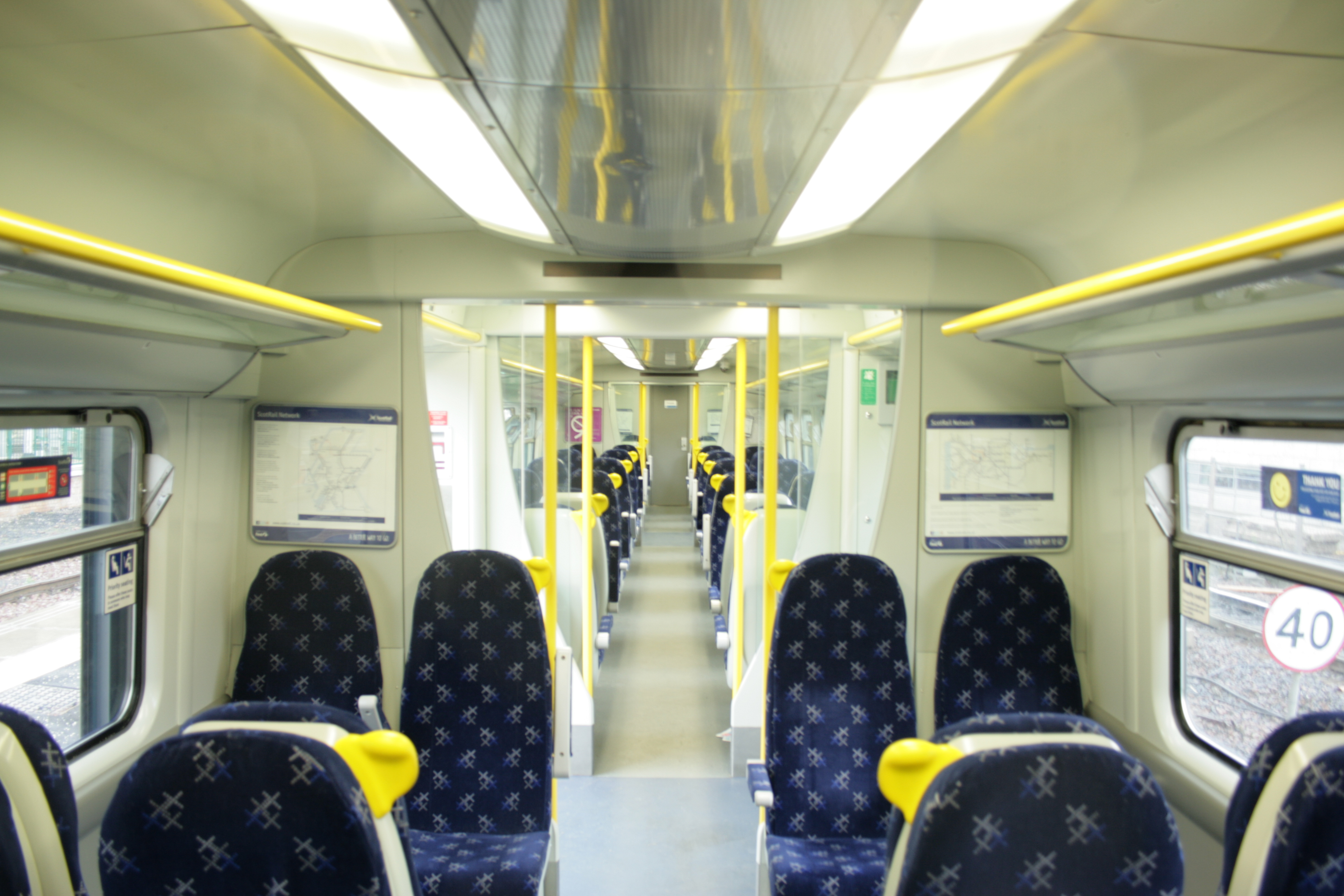 A shot of the refurbished interior of a ScotRail Class 334, which was painted into Saltire livery recently.